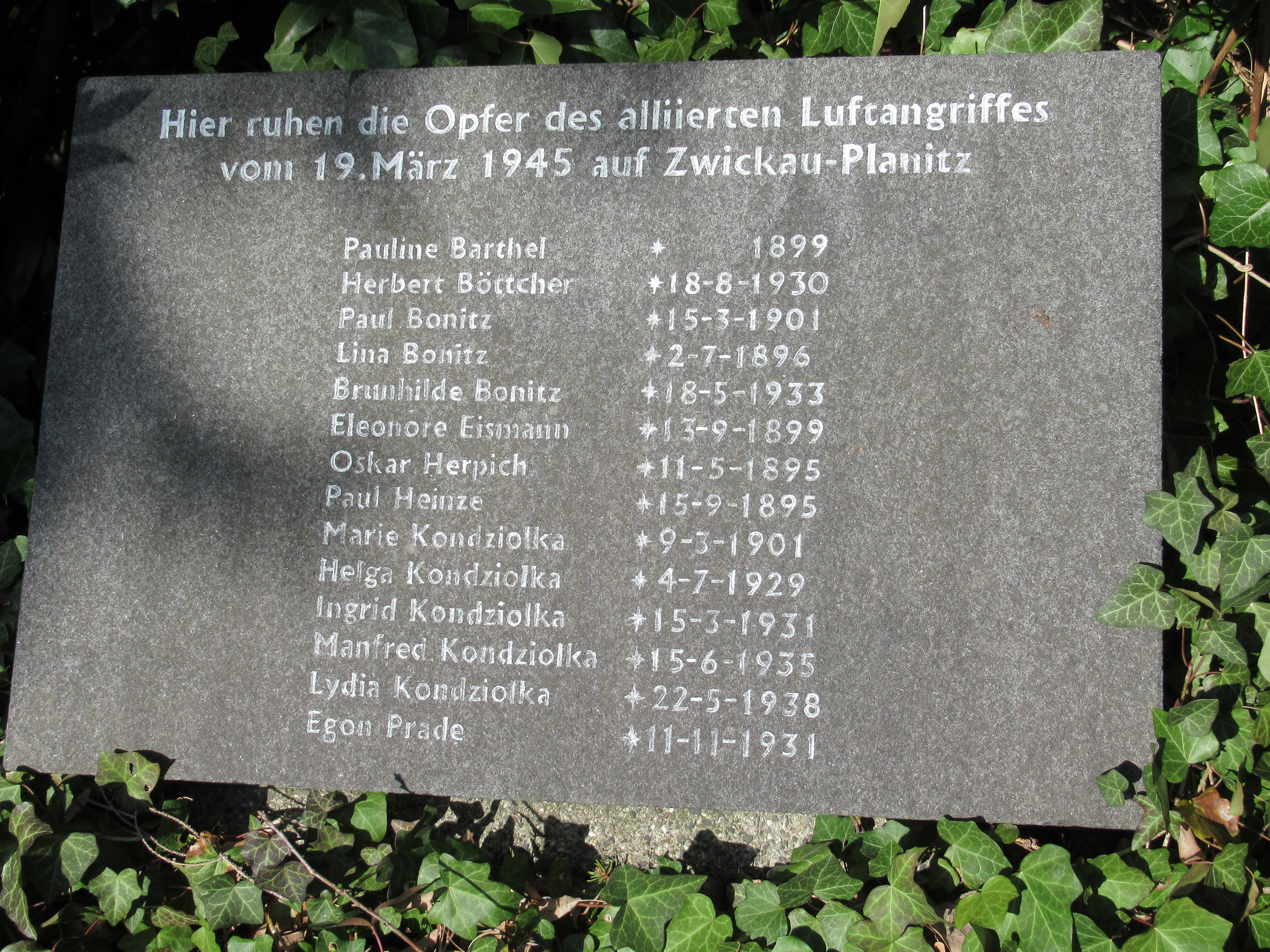 Zwickau-Planitz Bombing Victims at Cemetery